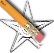 Adapted from Image:Barnstar.png, using a public domain pencil image from